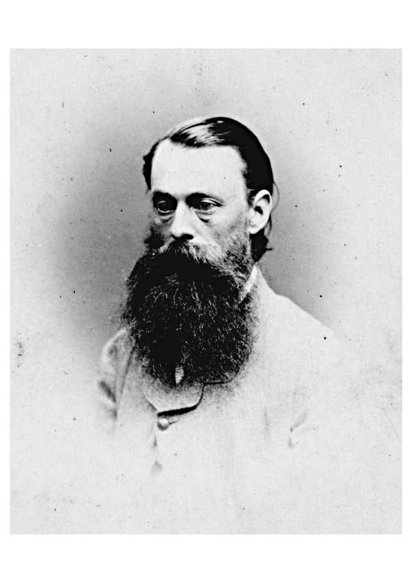 Image of Peter Beveridge (1829-1885), 1 photographic print : albumen silver carte-de-visite ; on carte-de-visite 10.7 x 6.5 cm. From the archives of the State Library of Victoria